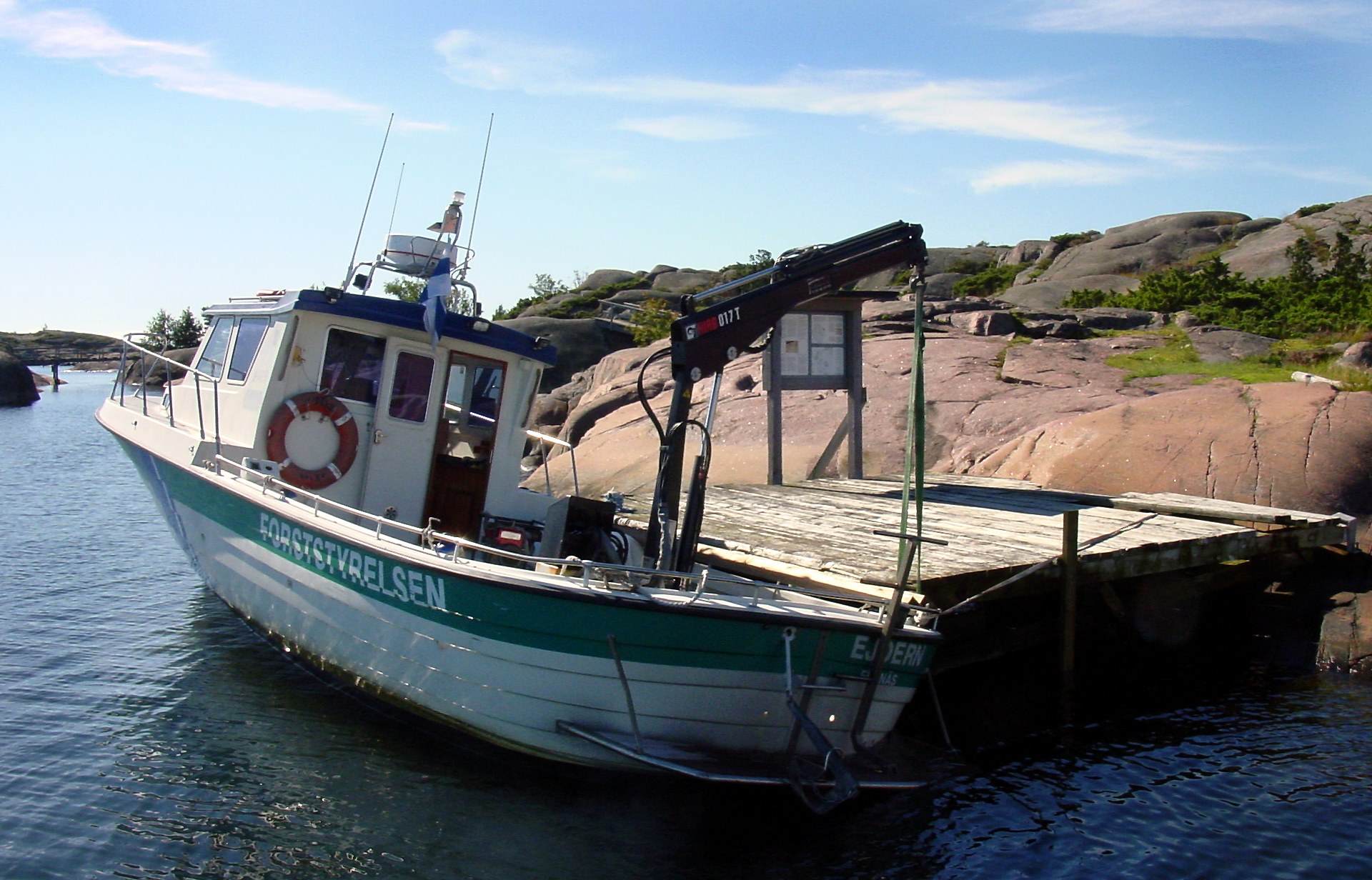 Metsähallitus repair a visiting bridge i Hanko